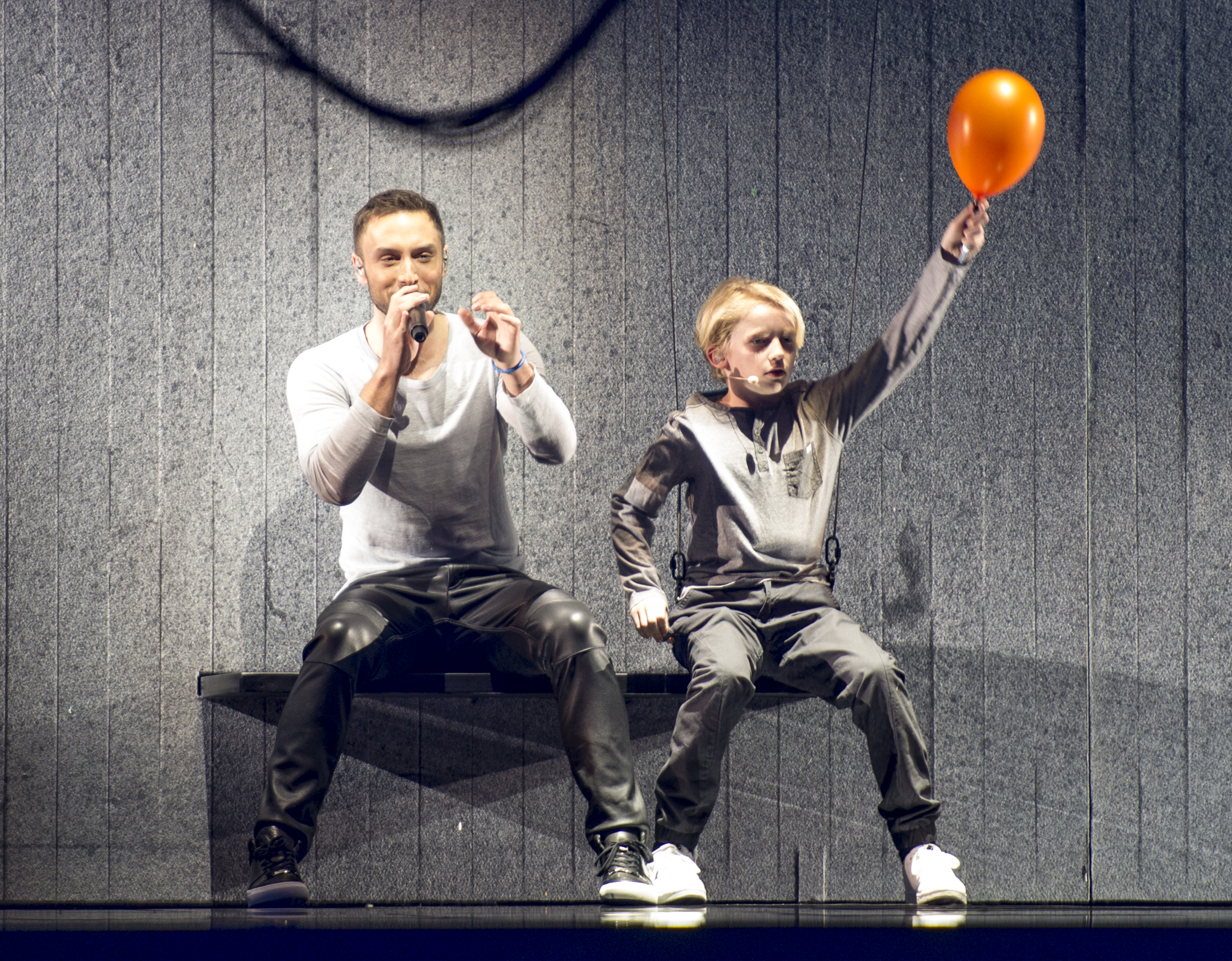 The opening act of the first semi final, during the first dress rehearsal in the Eurovision Song Contest 2016 in Stockholm. (Help translate this text)